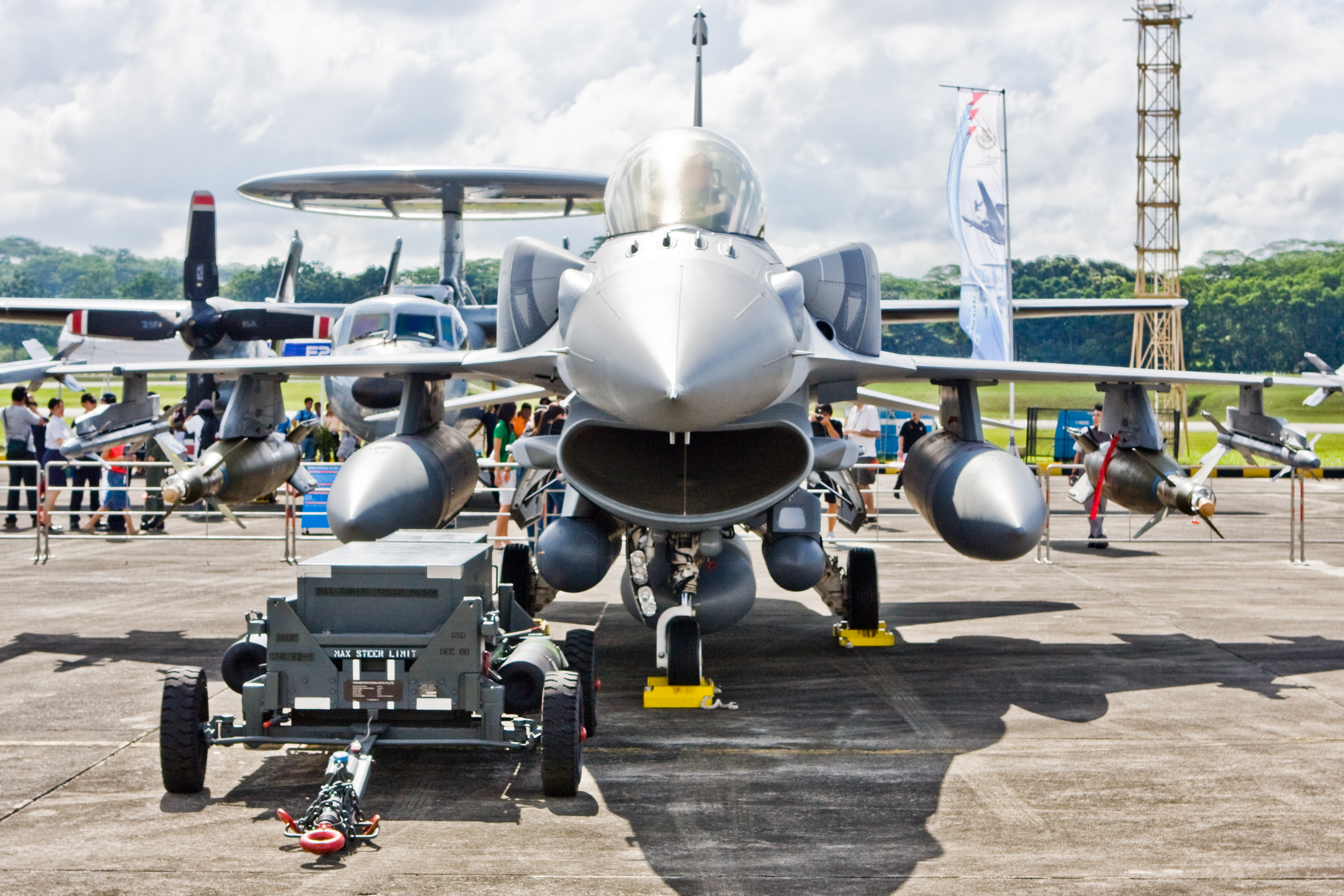 F-16 Fighting Falcon with E-2C Hawkeye AWACs behind